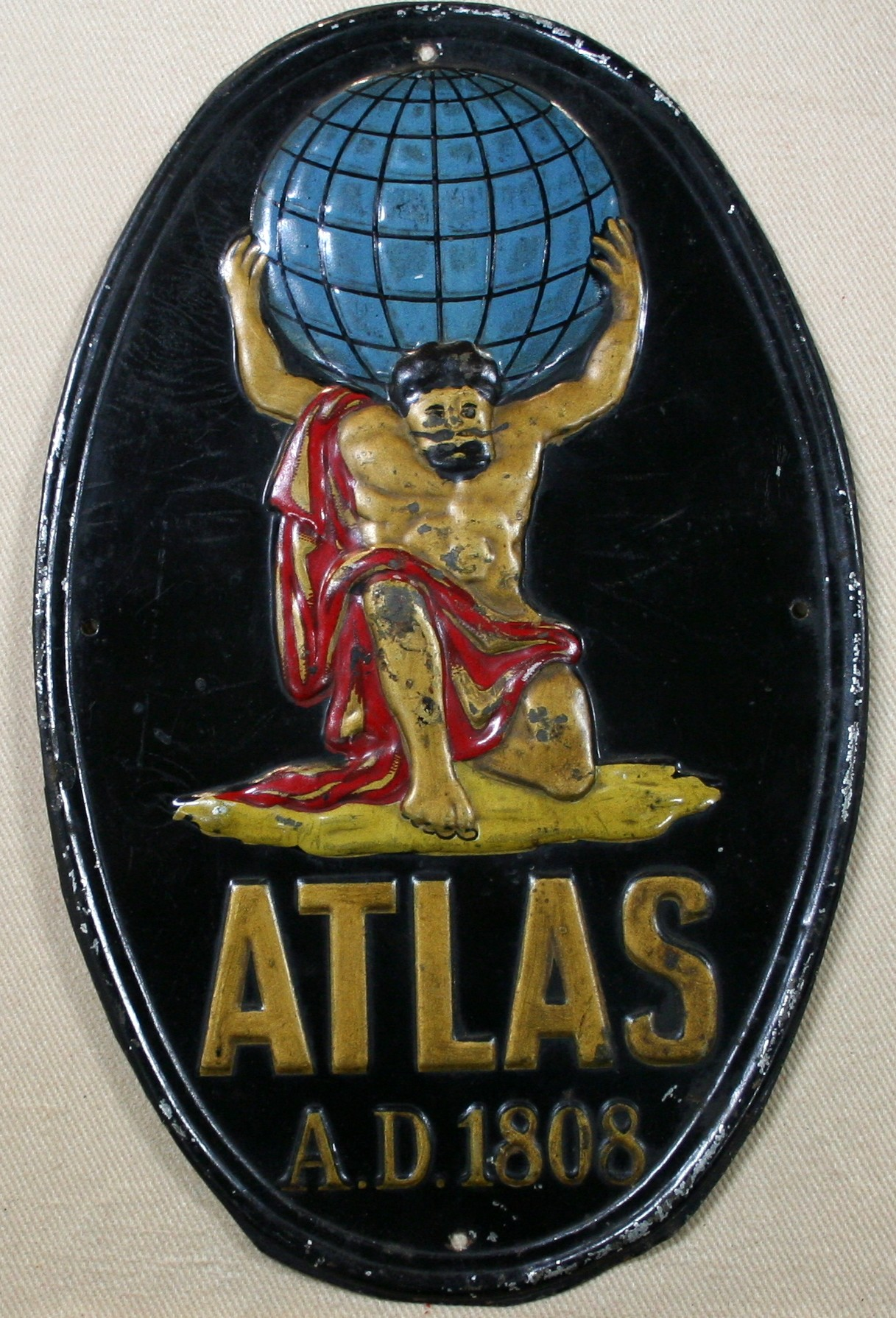 Fire mark for Atlas Assurance Company, Ltd. In London, England after 1808.Title: Fire Mark for Atlas Assurance Company, Limited in London, England